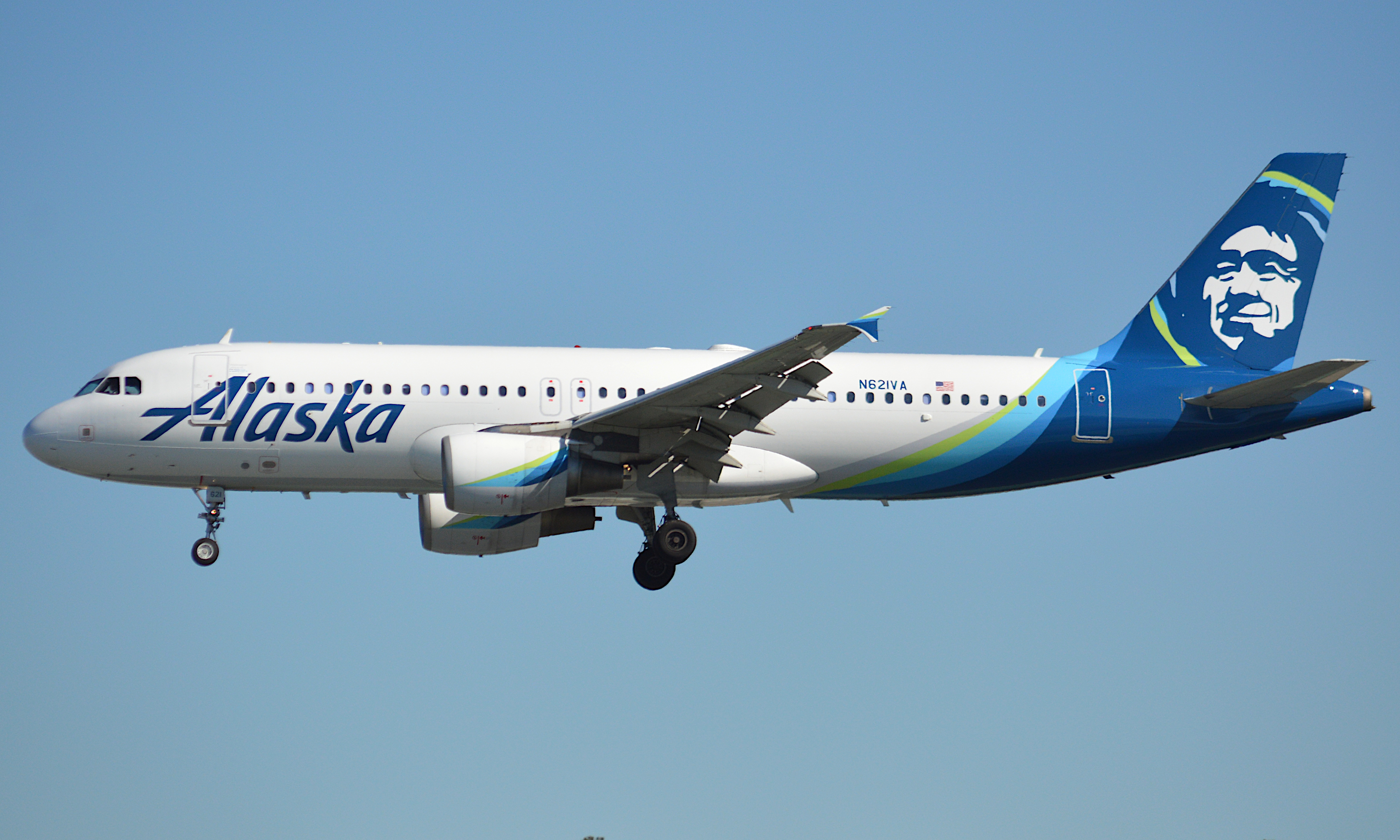 So sad seeing these in the Alaska livery, especially since something just seems "off" to me. I guess I should be happy I got to see a new livery bird, but still. Alaska Airlines (ex. Virgin America) A320 N621VA landing on runway 27, San Diego International Airport, February 23, 2019.